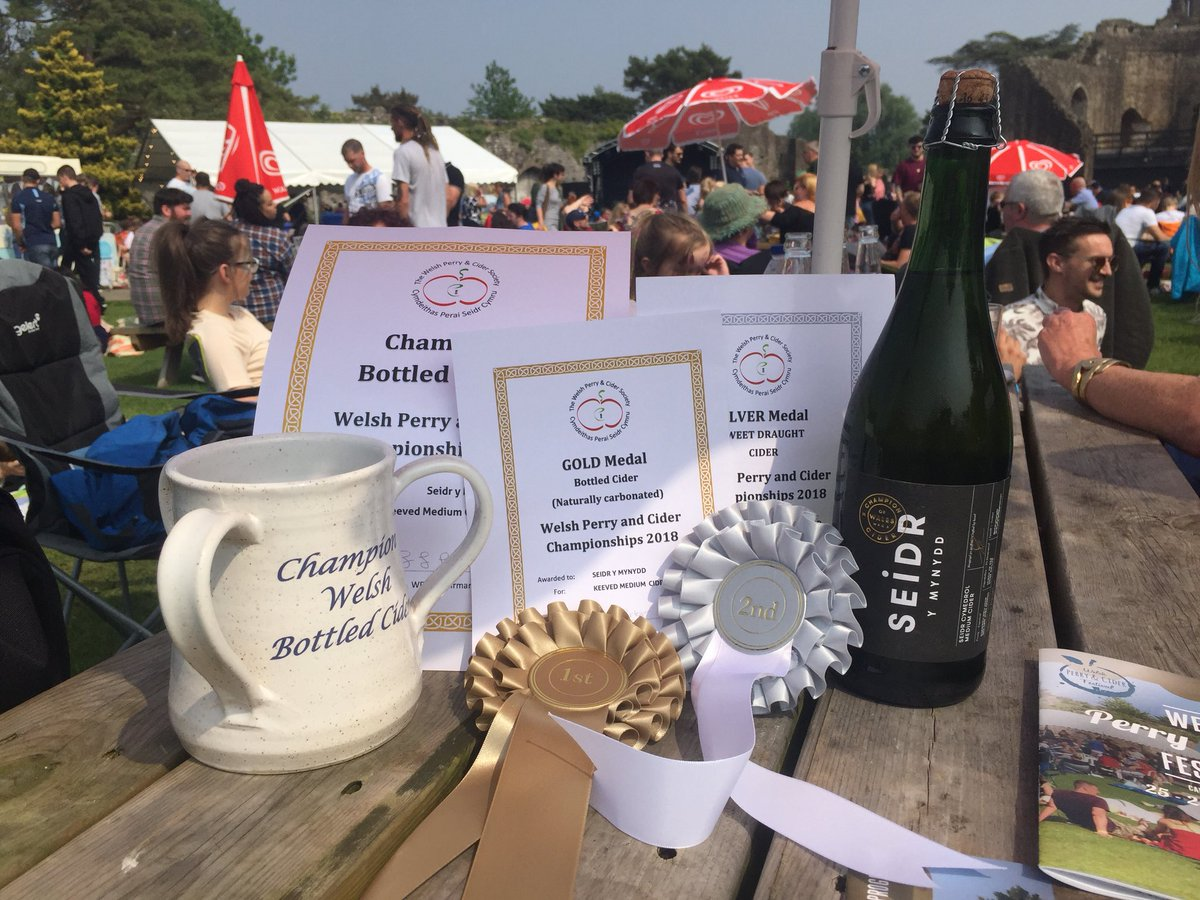 'Seidr y Mynydd' champion Welsh Cider Awards, 2018